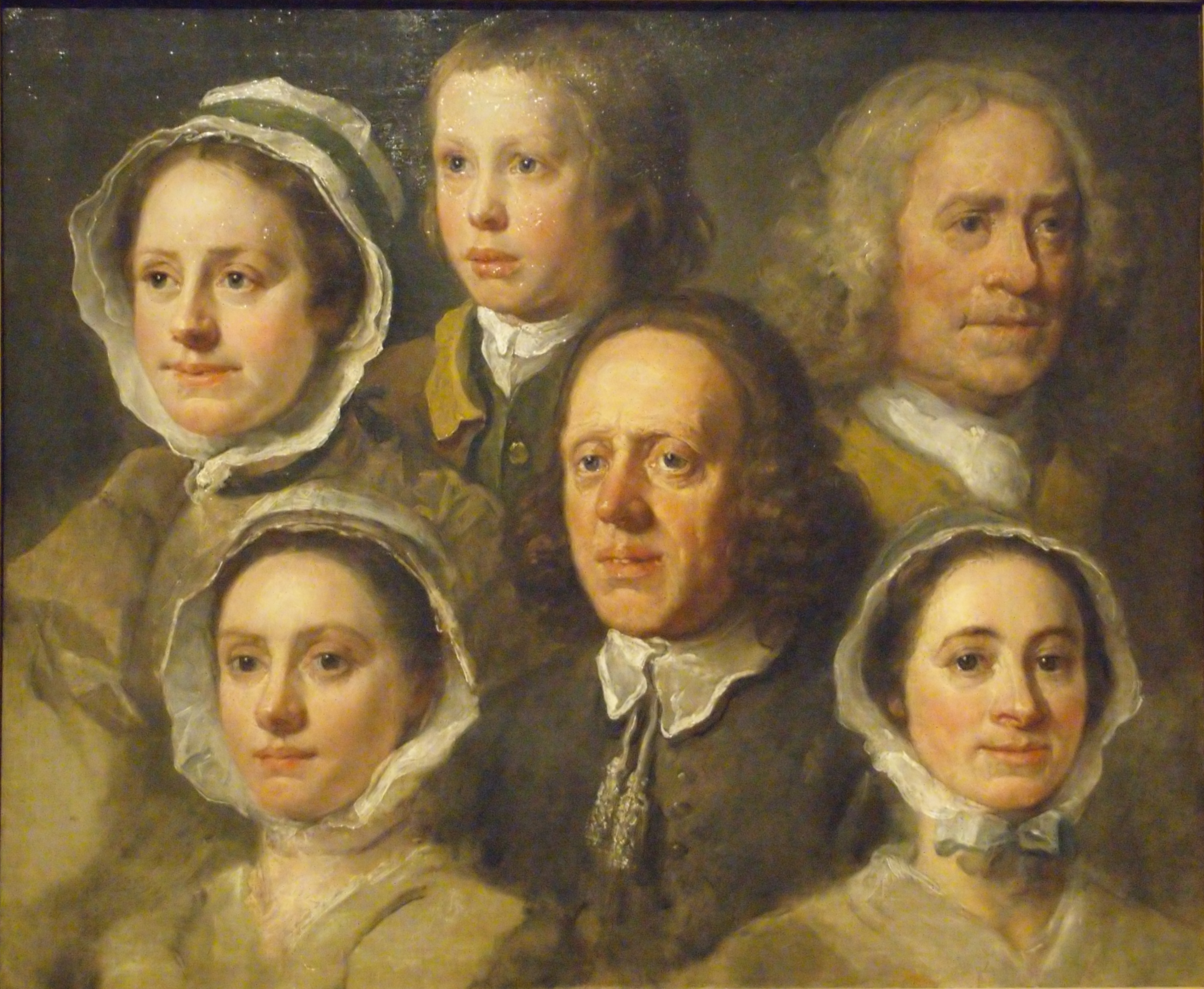 Hogarth's Servants